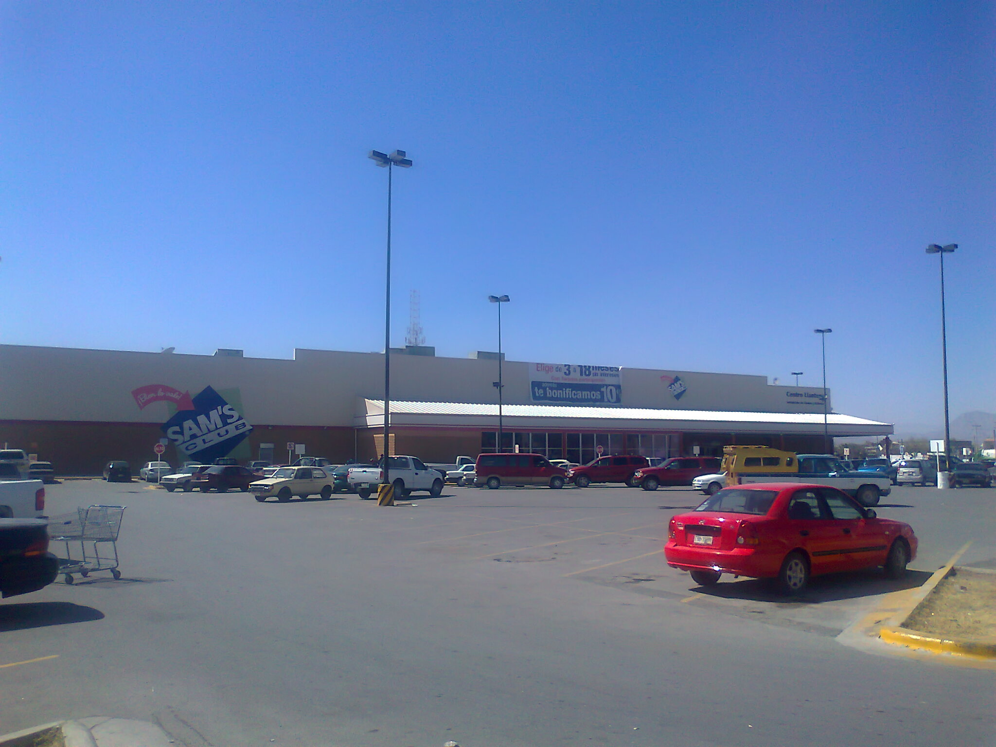 Sam's Club in Ciudad Lerdo, Durango, Mexico. It shows the neglect of their owners for their lack of maintenance (retains the same first Sam's Club design in the history, like all in Mexico).